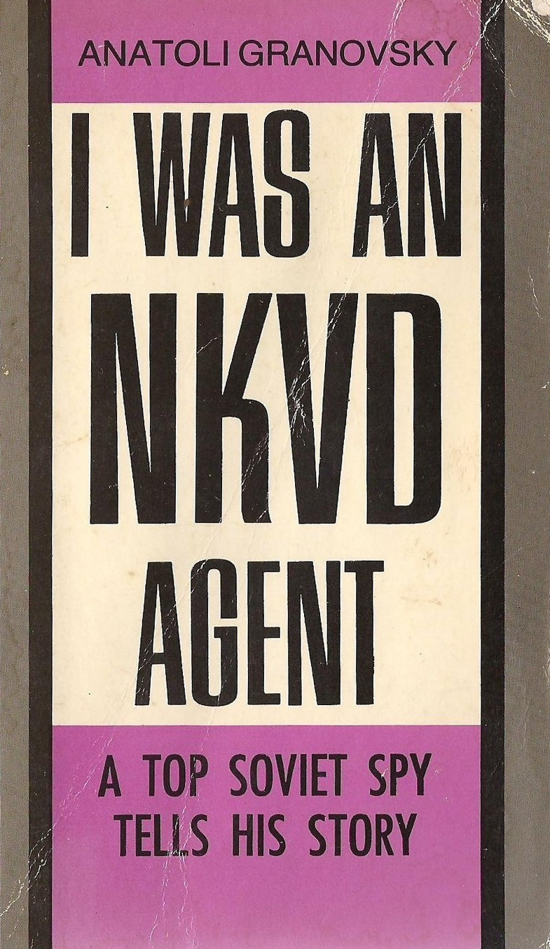 The front cover of the 1982 paperback edition of Anatoli Granovsky's autobiographical book "I Was an NKVD Agent"